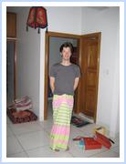 The classic dress of Bangladeshi men.